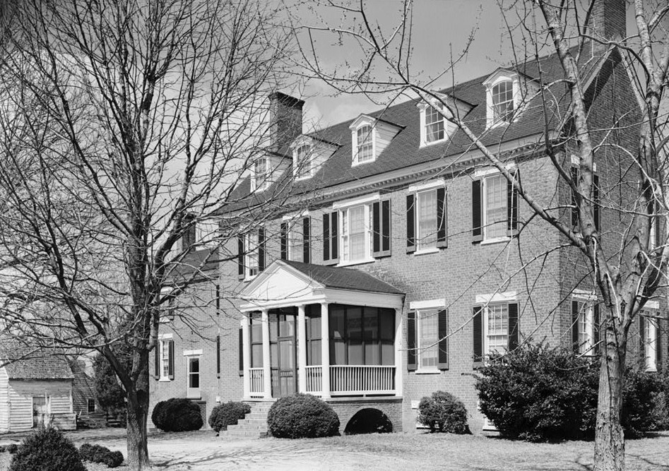 cropped HABS VA,66-EAST.V,3-1 This file comes from the Historic American Buildings Survey (HABS), Historic American Engineering Record (HAER) or Historic American Landscapes Survey (HALS). These are programs of the National Park Service established for the purpose of documenting historic places. Records consist of measured drawings, archival photographs, and written reports. When reusing please credit: Library of Congress, Prints & Photographs Division, VA-808 This tag does not indicate the copyright status of the attached work. A normal copyright tag is still required. See Commons:Licensing. This work is in the public domain in the United States because it is a work prepared by an officer or employee of the United States Government as part of that person’s official duties under the terms of Title 17, Chapter 1, Section 105 of the US Code. Note: This only applies to original works of the Federal Government and not to the work of any individual U.S. state, territory, commonwealth, county, municipality, or any other subdivision. This template also does not apply to postage stamp designs published by the United States Postal Service since 1978. (See § 313.6(C)(1) of Compendium of U.S. Copyright Office Practices). It also does not apply to certain US coins; see The US Mint Terms of Use. This file has been identified as being free of known restrictions under copyright law, including all related and neighboring rights. Object location37° 20′ 59″ N, 75° 56′ 54″ W